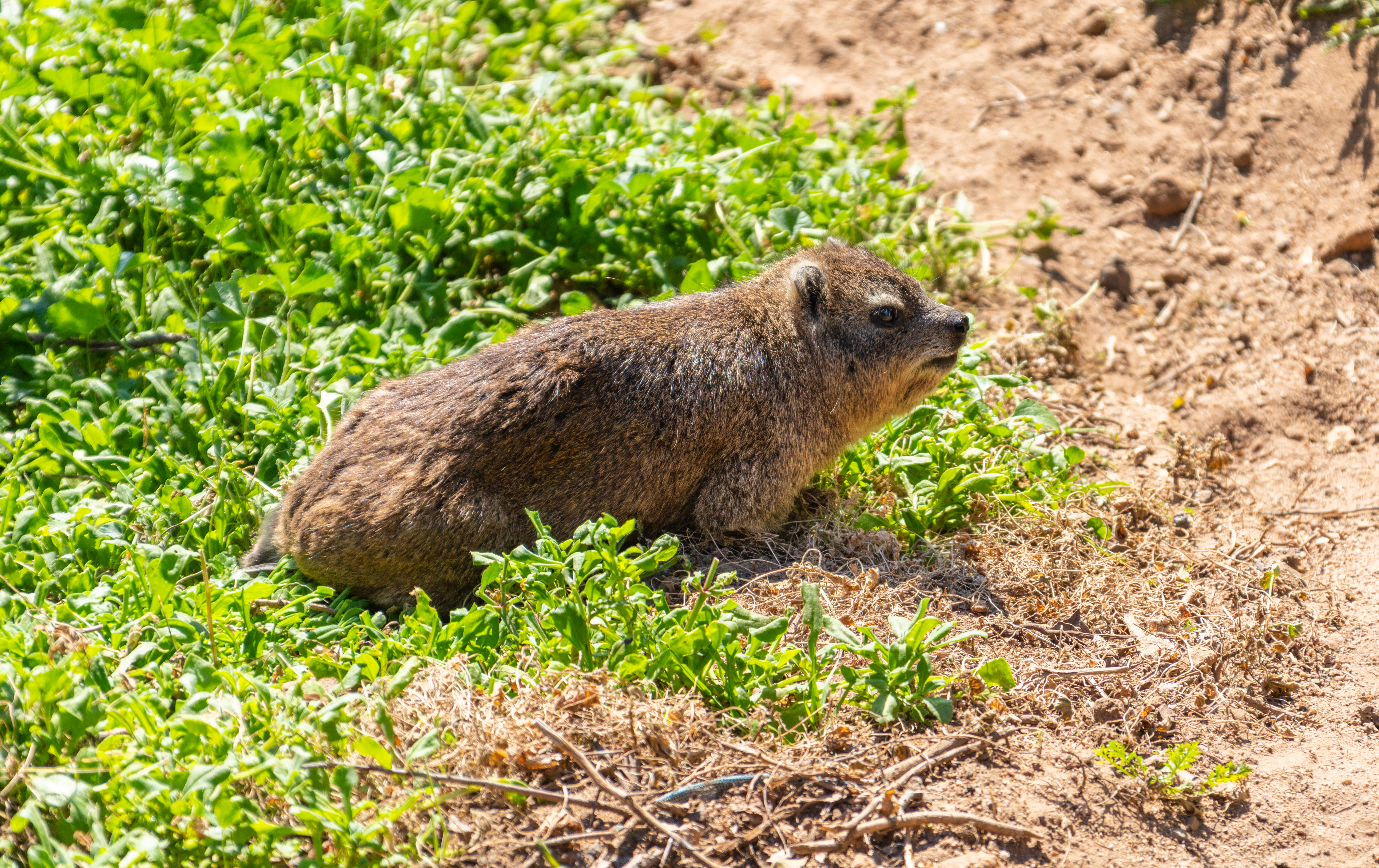 Rock hyrax (Procavia capensis), Simon's Town, South Africa